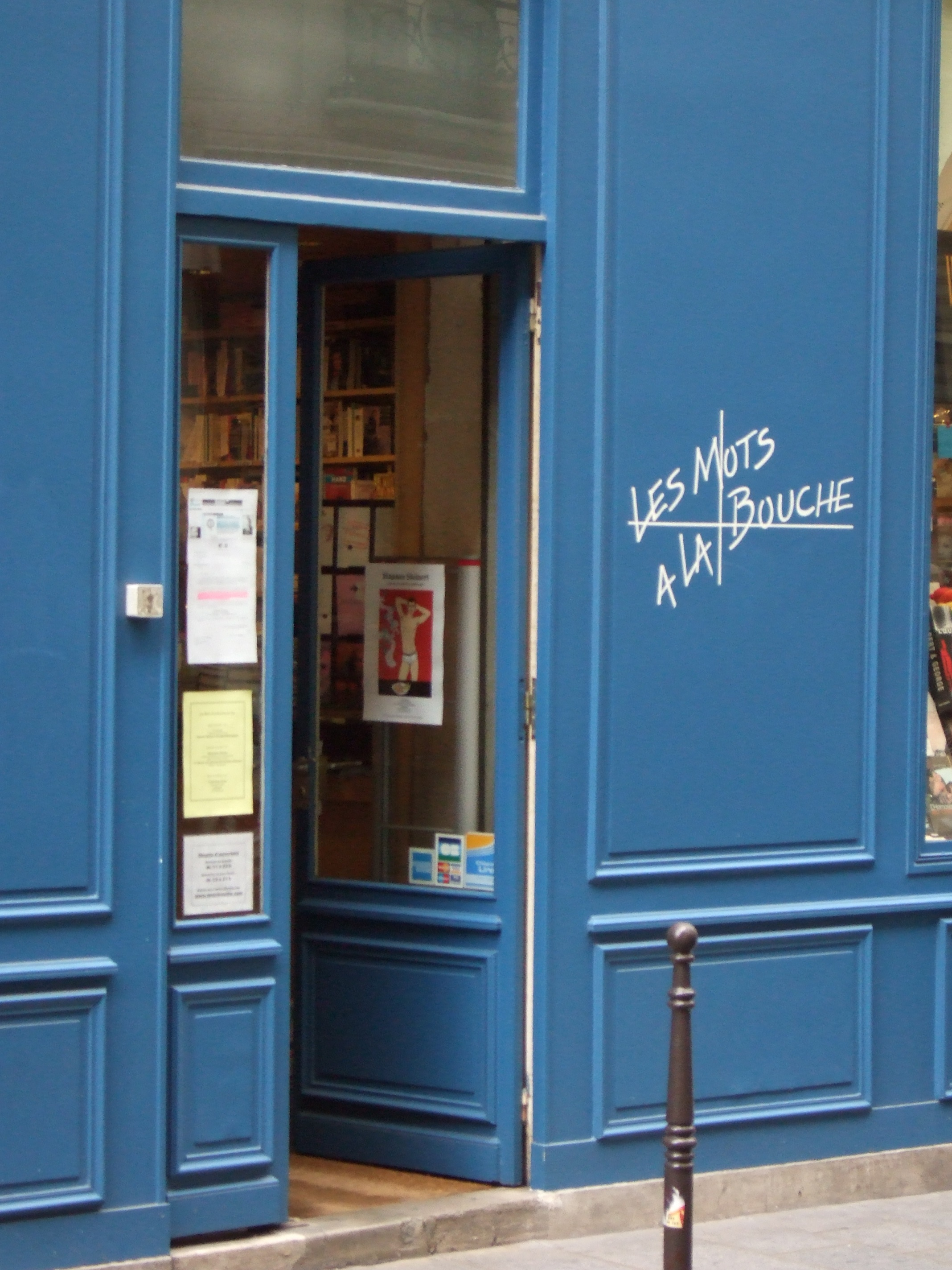 Paris - Les Mots a la Bouche. Door with advertisement of the Hannes Steinert art exposition. No. 6 Rue Sainte-Croix-de-la-Bretonnerie, Paris.